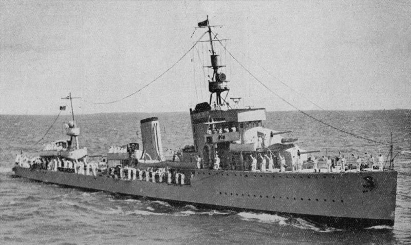 Royal Romanian destroyer Regele Ferdinand.